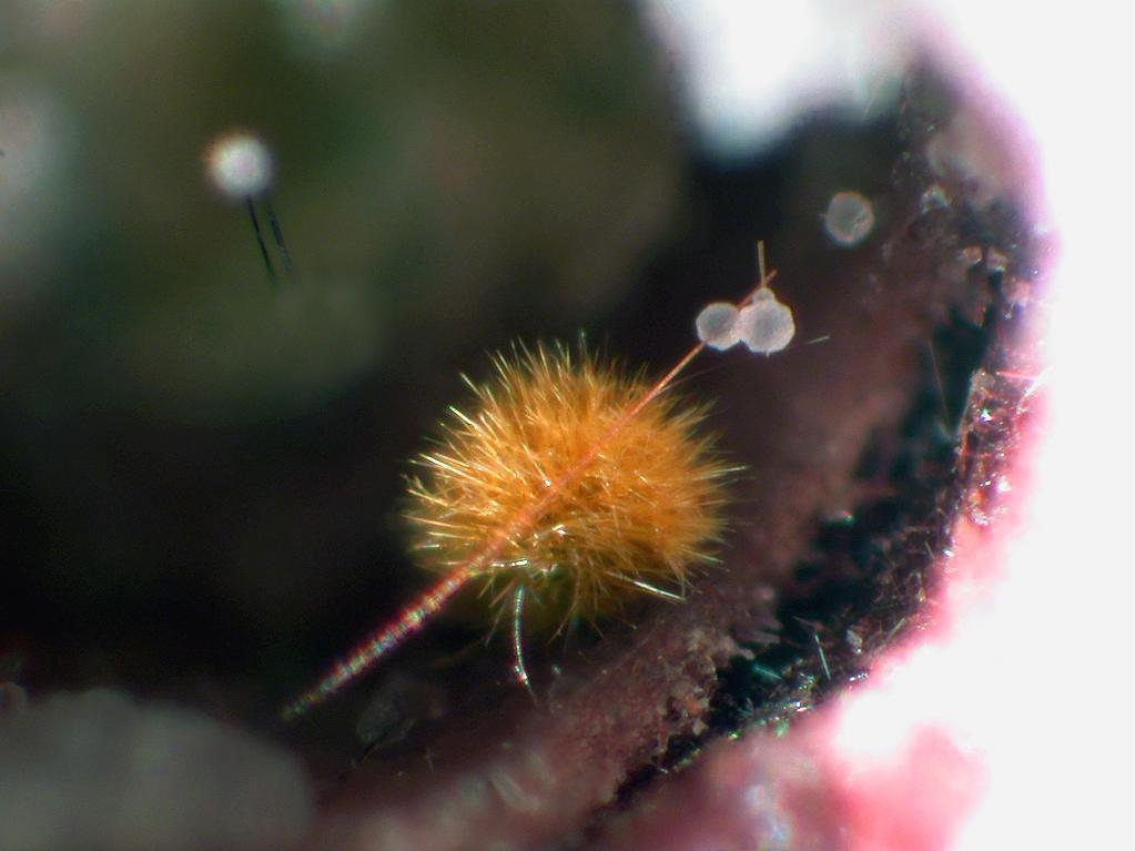 In some black xenolite you can find this combination: Nice Pseudobrookite ball (yellow) on Hematite needle and tiny Cristobalite balls. - Locality: Wannenköpfe, Ochtendung, Eifel region, Germany